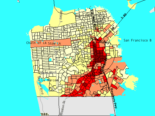 This image is a self-generated thematic map from the U.S. Census Bureau's American Factfinder at by Wikipedia user Stevey7788.